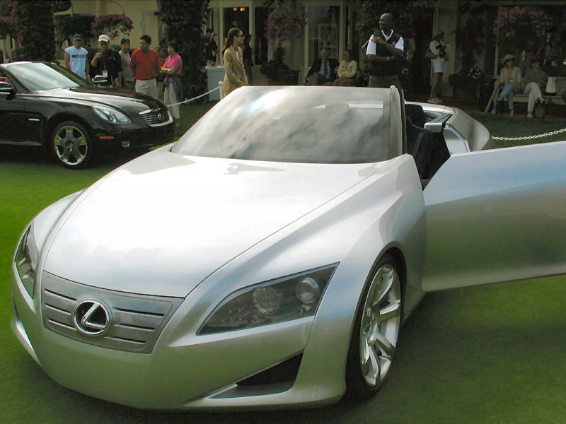 Lexus LF-C at the 2004 Pebble Beach Concours d'Elegance